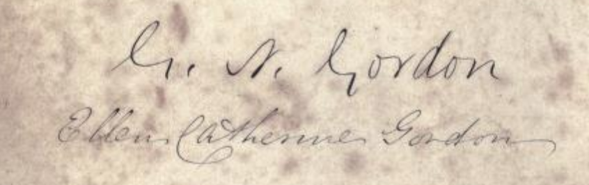 Rev. George N. Gordon and Ellen Catherine Powell, his wife signatures